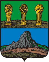 Narovchat (Penza oblast), coat of arms (1781)